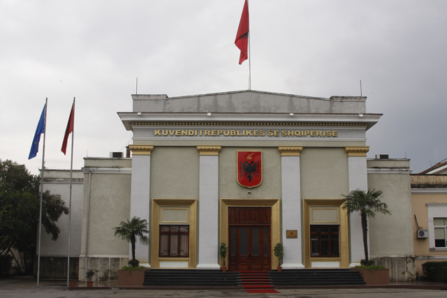 Outer Fascade of the Albanian National Assembly in Tirana